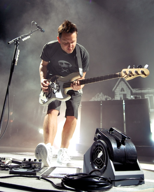 Mark Hoppus of Blink 182 at the 2011 Honda Civic Tour in Montreal.